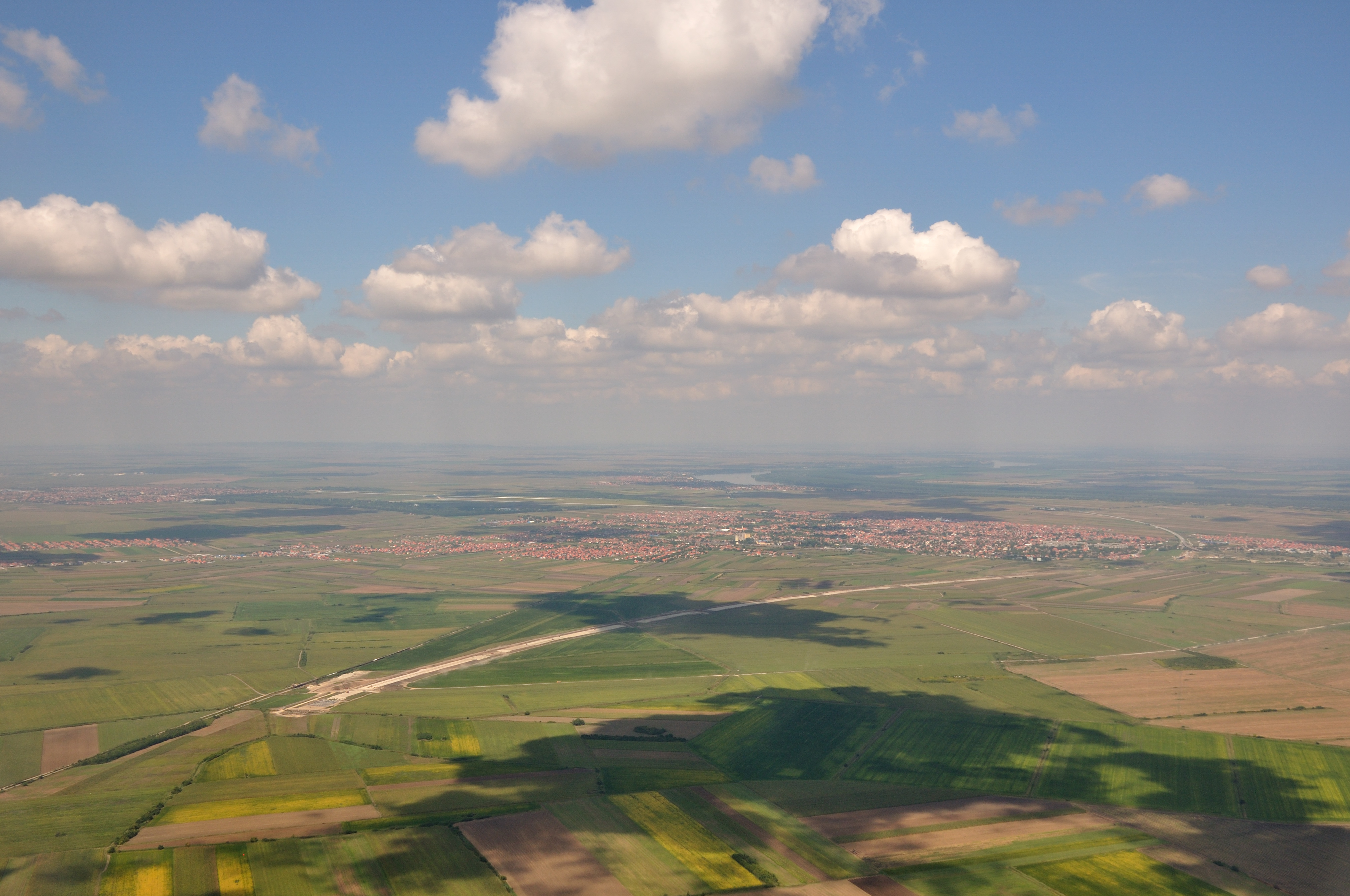 Serbia, aerial photograph after take-off in Belgrade.